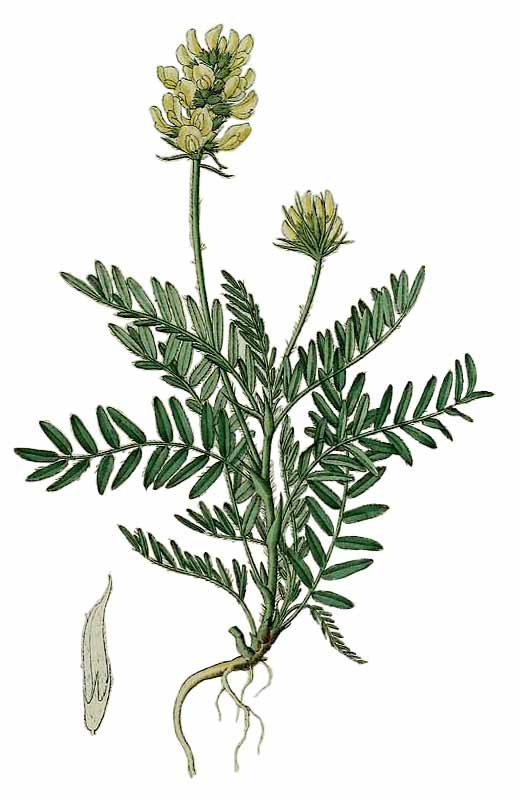 Illustration of Oxytropis pilosa De Cand.